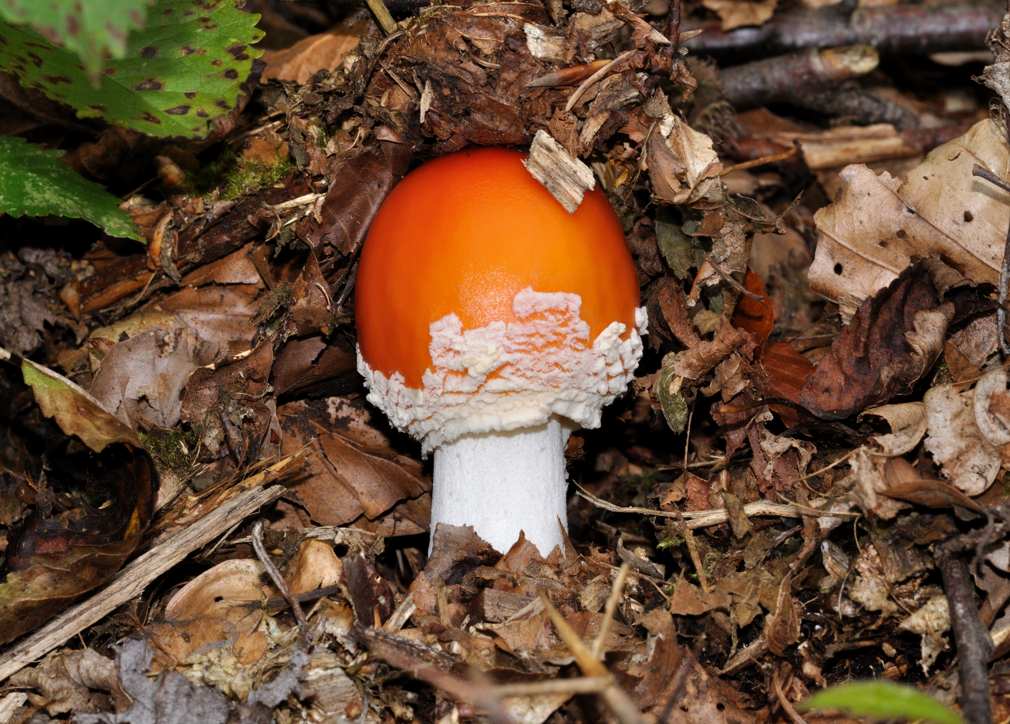 A young Fly Agaric (Amanita muscaria) breaks through the underbrush near Biggesee, Sauerland, Germany.